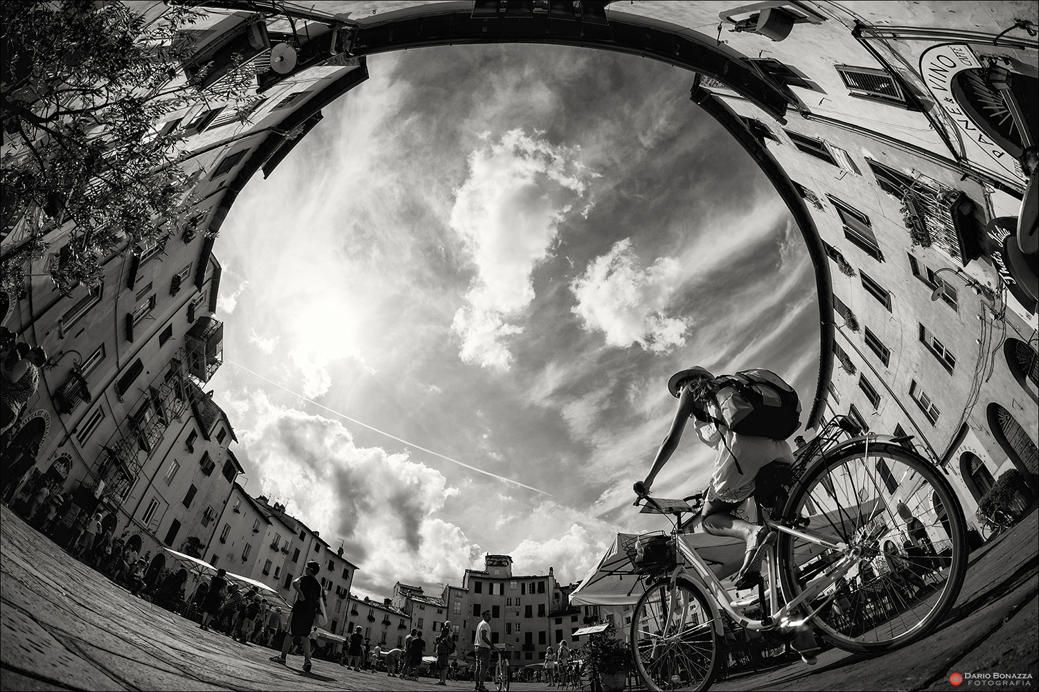 This is Piazza dell'Anfiteatro in Lucca, Italy, shot in 2014 with my Pentax K-5IIs and Samyang 8mm fisheye lens.